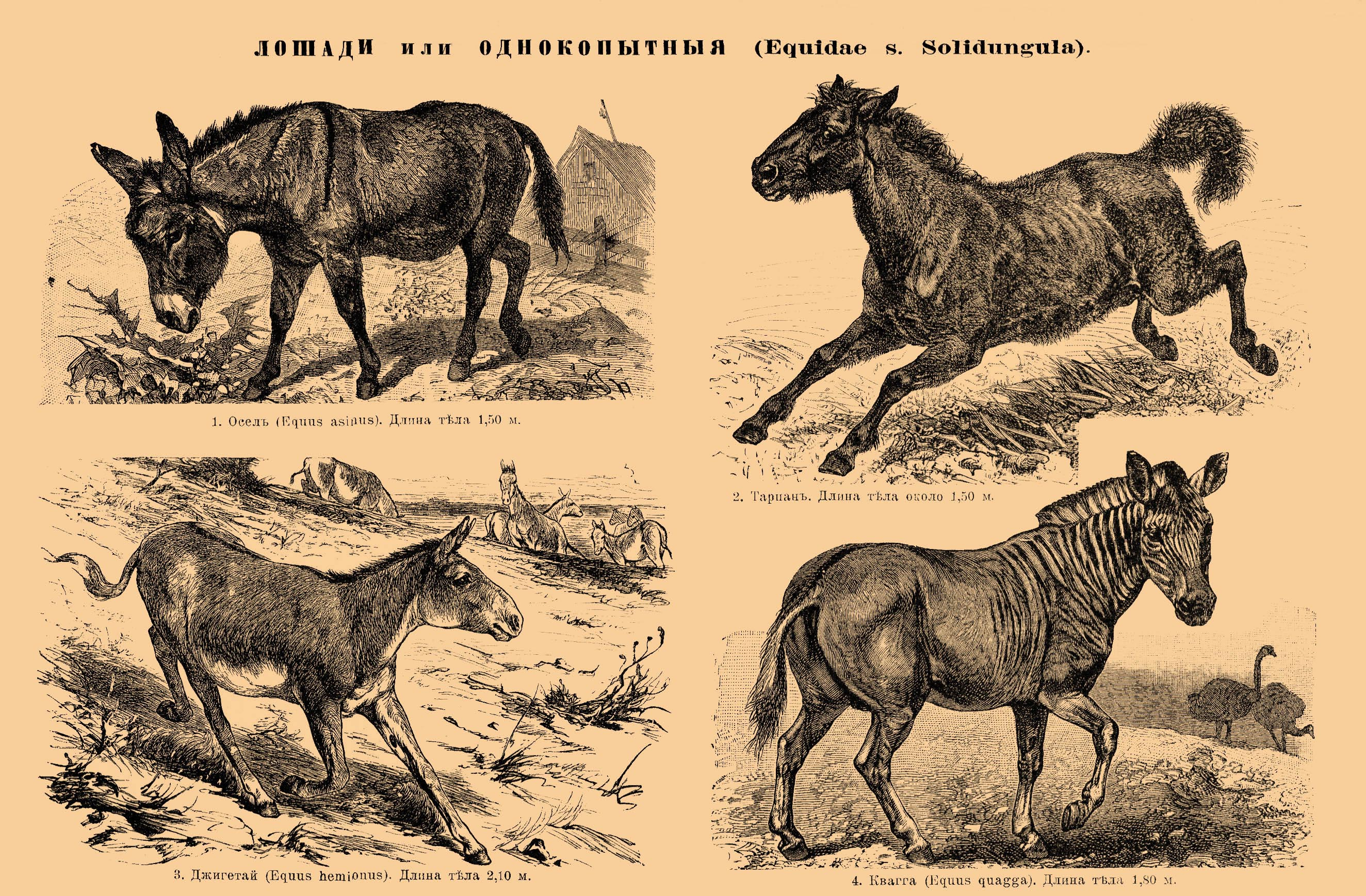 Illustration from Brockhaus and Efron Encyclopedic Dictionary (1890—1907)